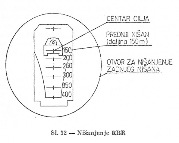 Aimsight of 64mm M80 "Zolja" RPG launcher. Top to bottom: Center targets-Front sight(150 meter distance)-Sight opening-Rear sight